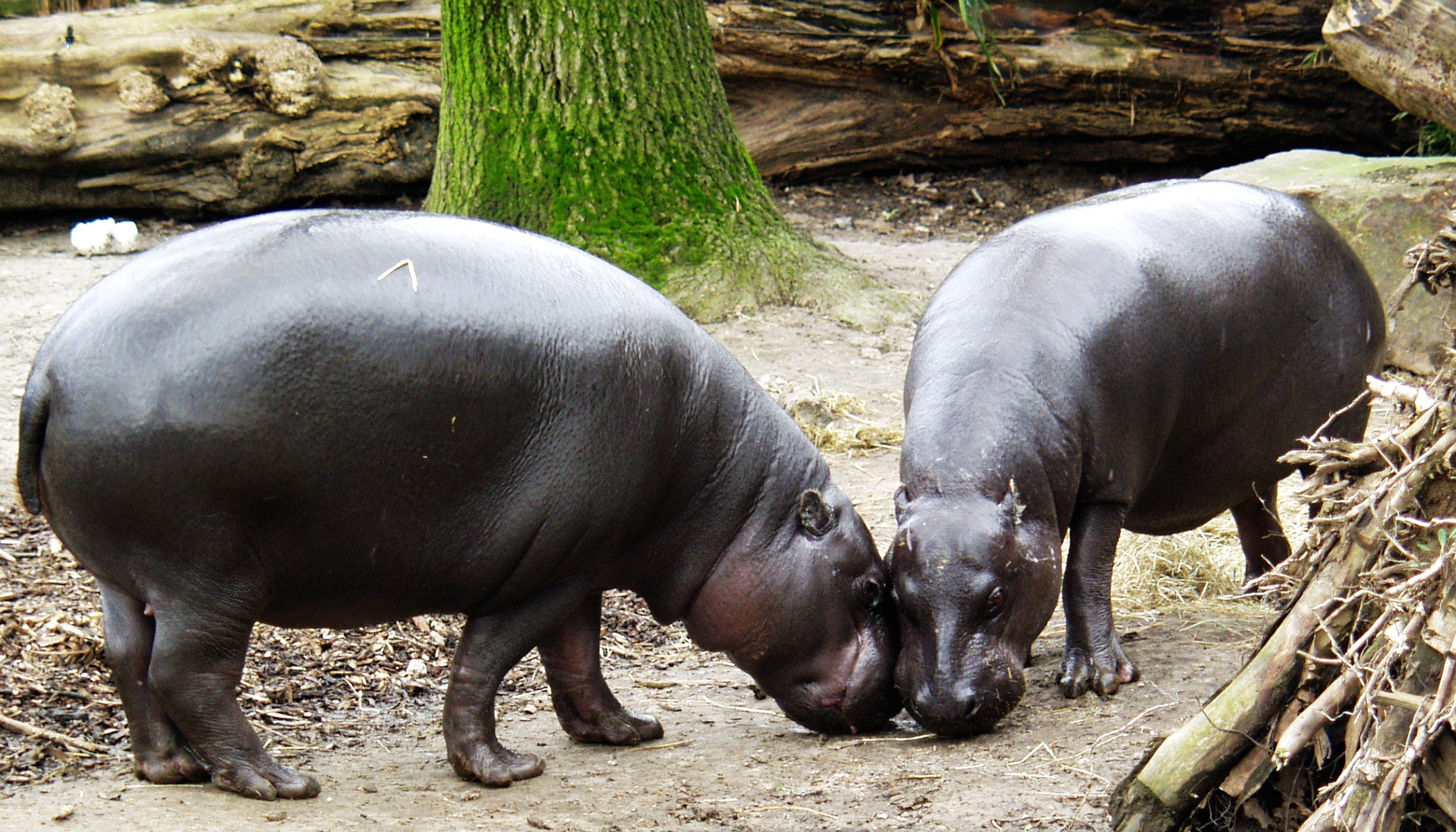 Pygmy Hippopotamus (Hexaprotodon liberiensis) at Duisburg Zoo, Germany.